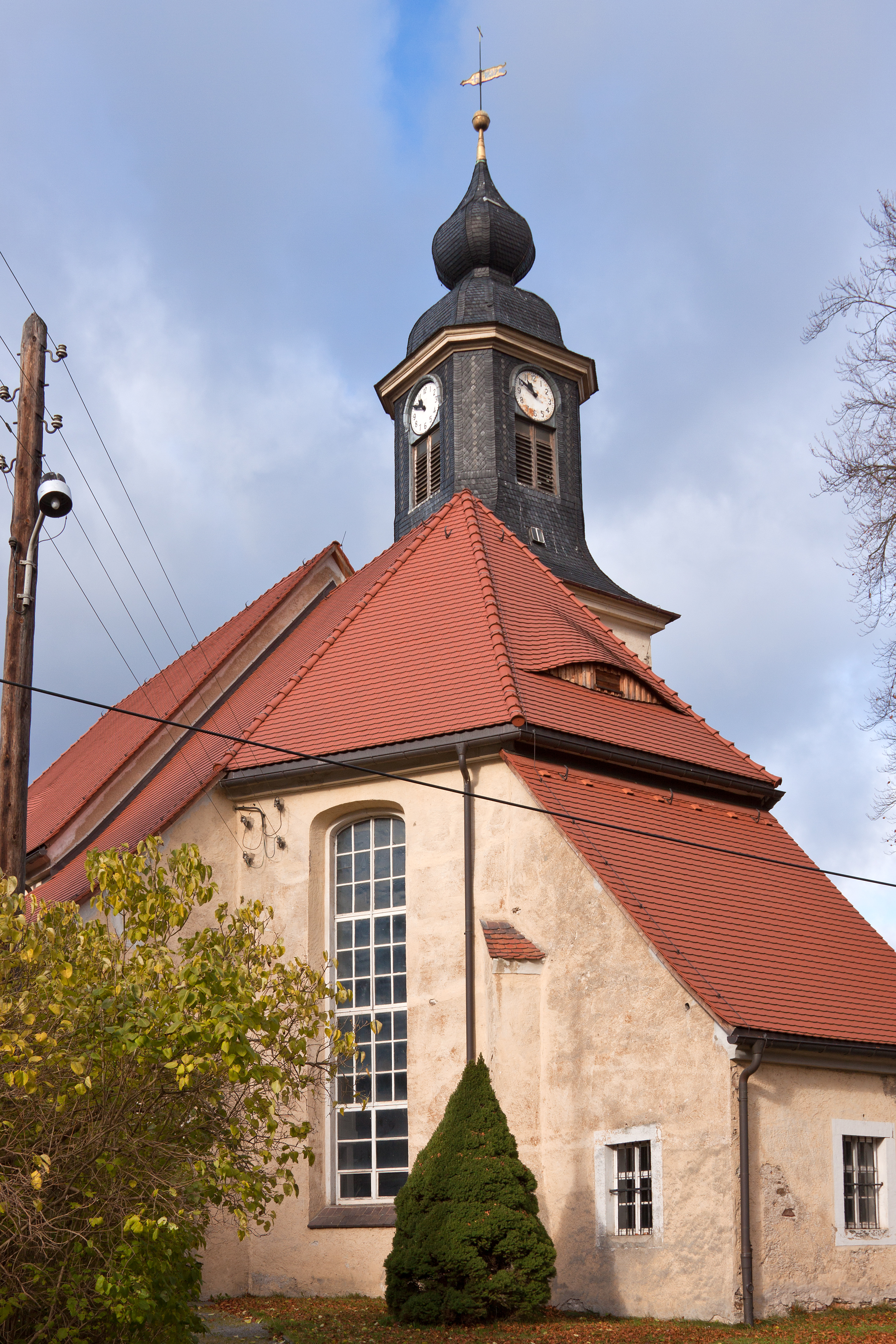 Oberschöna, Saxony, church